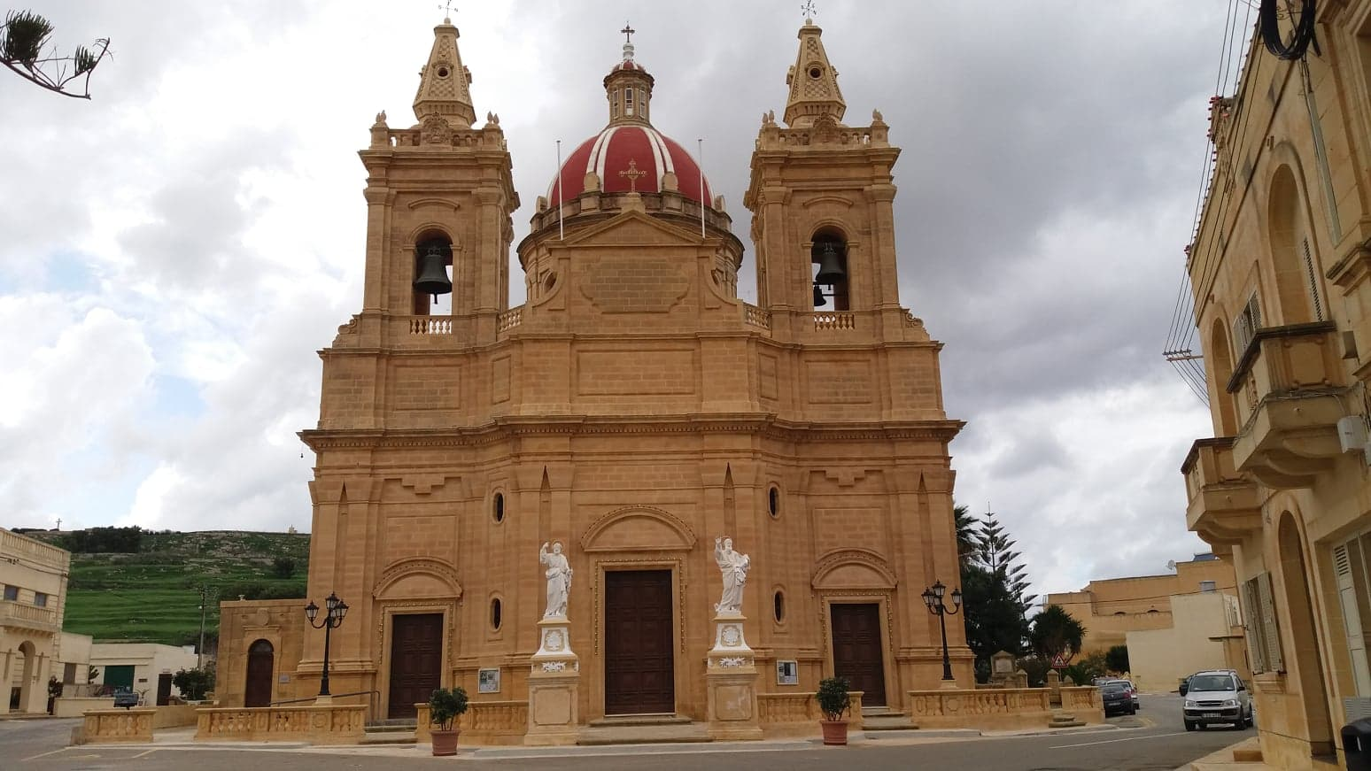 Facade of the Corpus Christi Parish Church (after 2018 restoration)